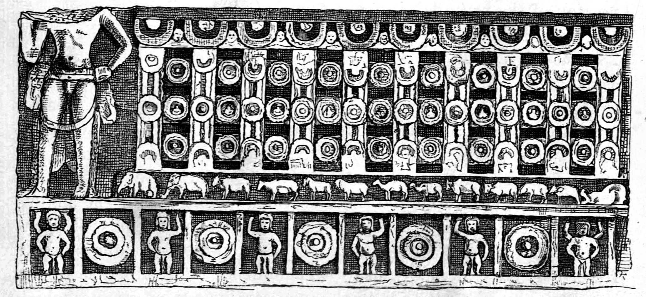 Kanheri Great Chaitya screen in front of the cave